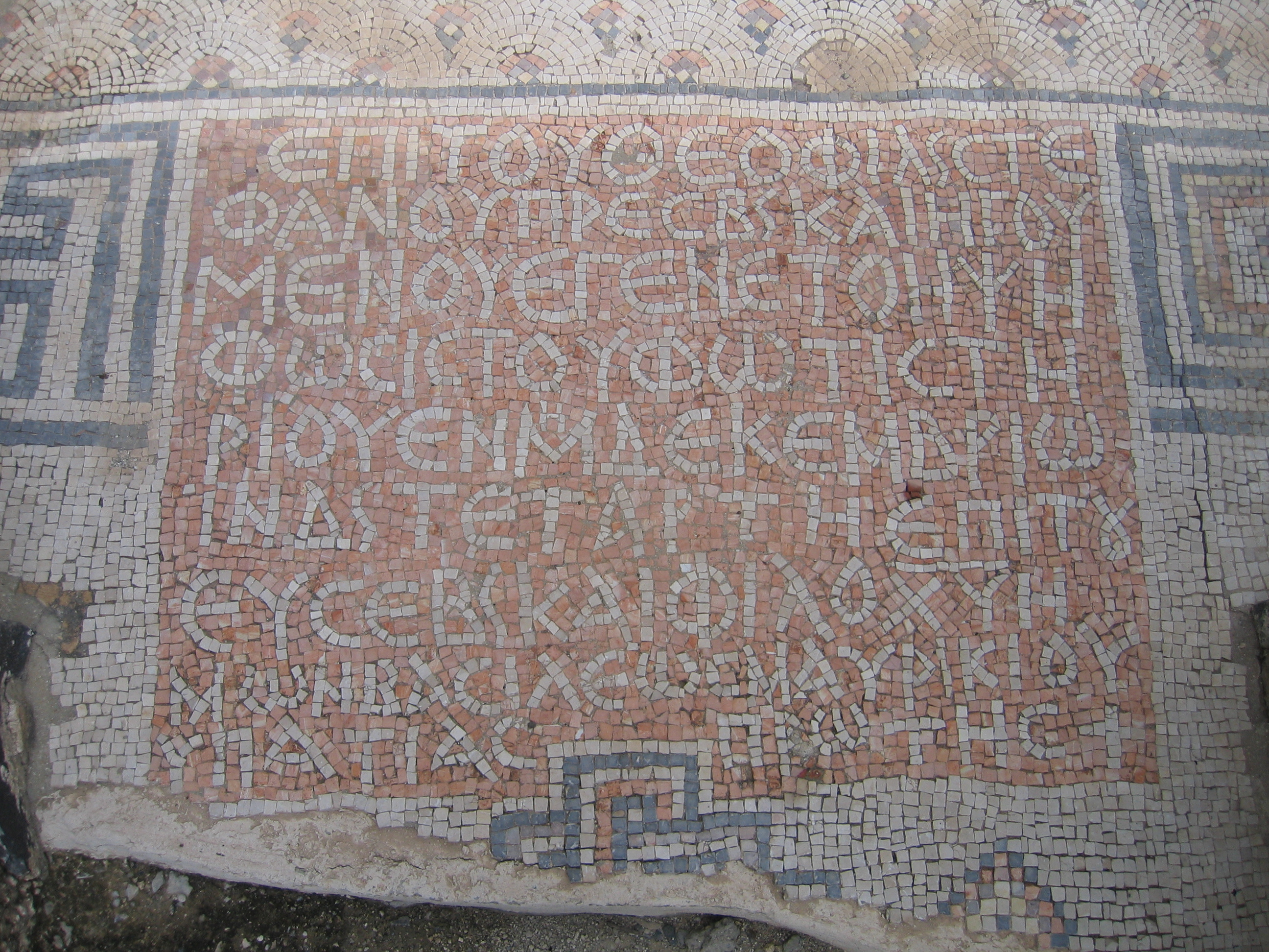 "In the time of the most God-belover Ste- panos the prist and ab- bot was made the mo- saic of the Photiste- rion in the month of December Forth indiction in the time of the pious and Christ-beloved our King Mauricius first consulate."